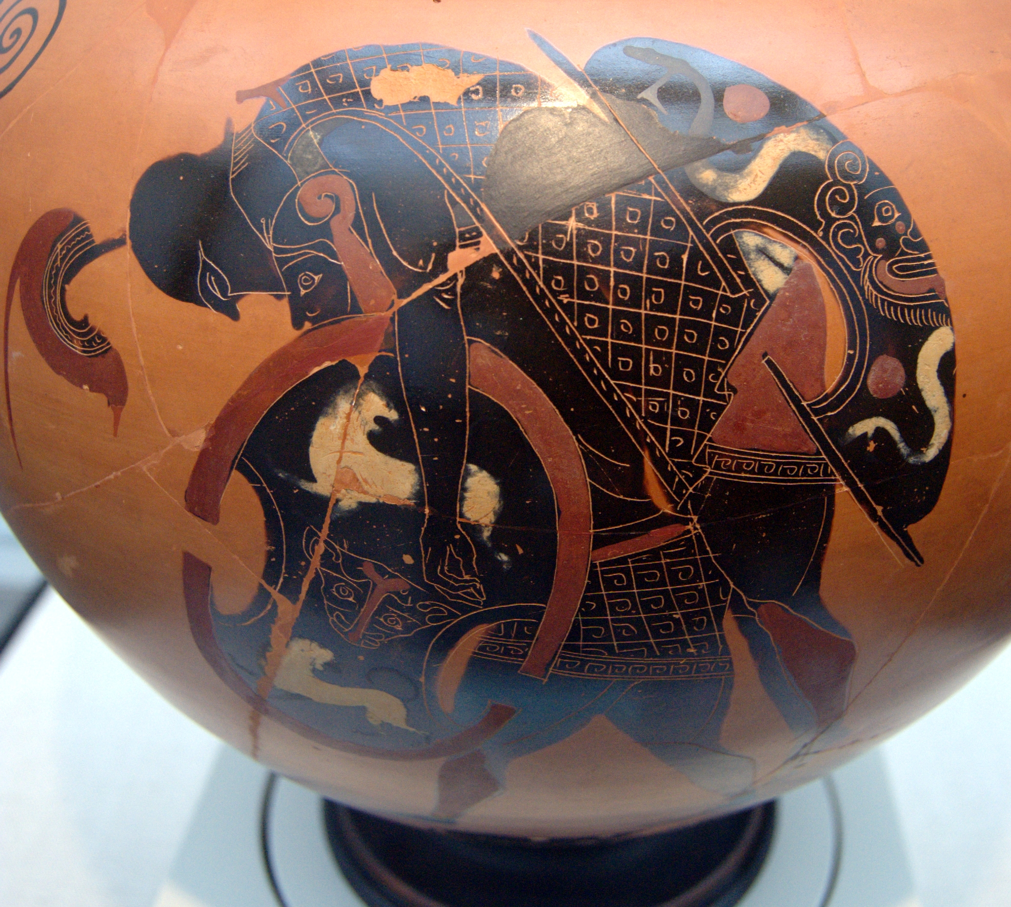 Ajax carrying the body of Achilles. Side A of an Attic black-figure amphora, 540–530 BC. From Vulci.